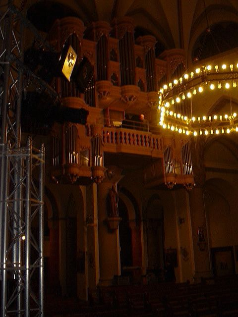 Part of St. Blasiuskirche at Balve